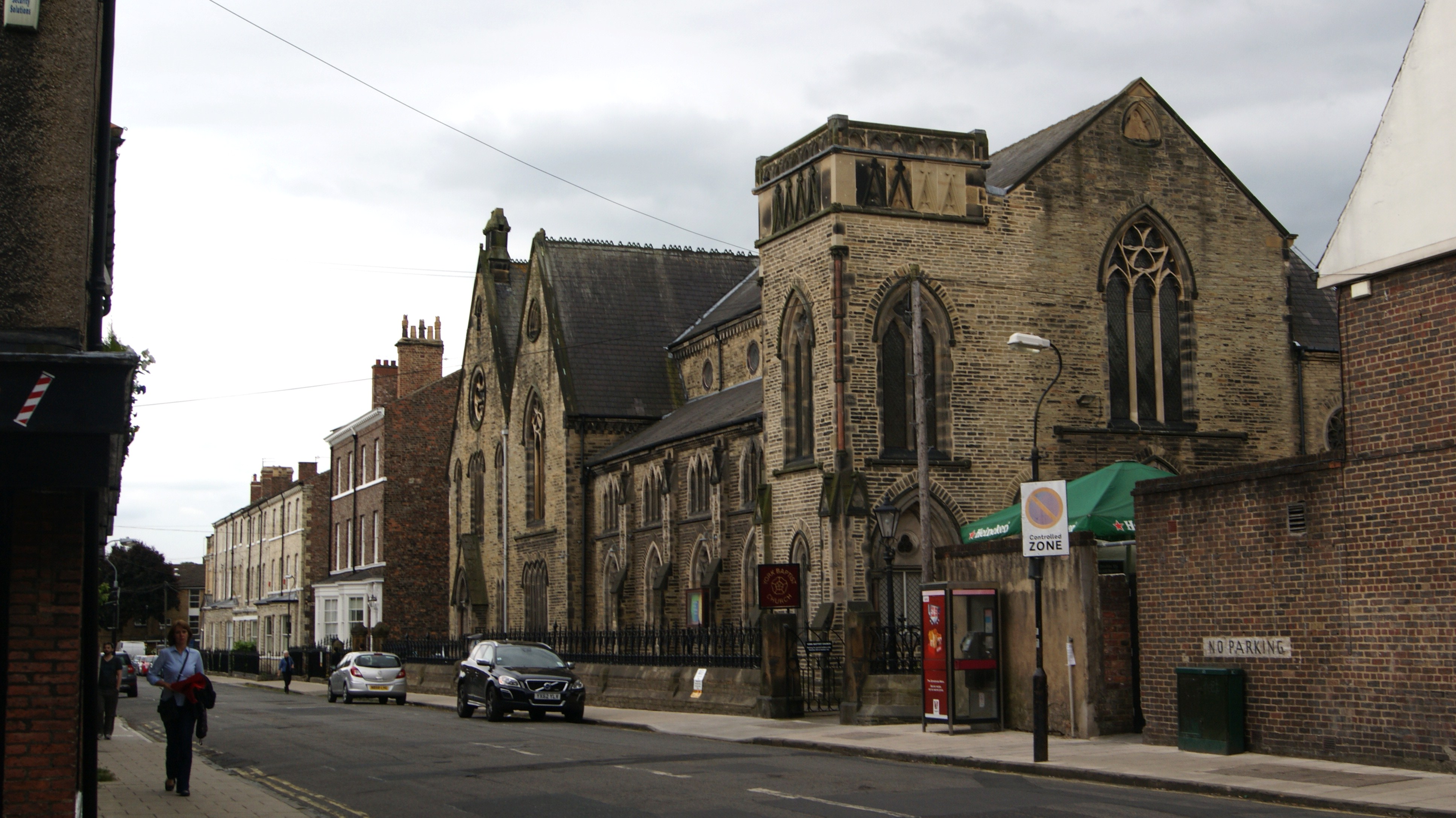 York Baptist Church, Priory Street, York, North Yorkshire. Taken on the afternoon of Wednesday the 12th of June 2013.